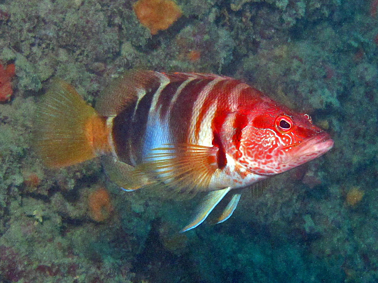 Painted comber (Serranus scriba). Levanto, Italy